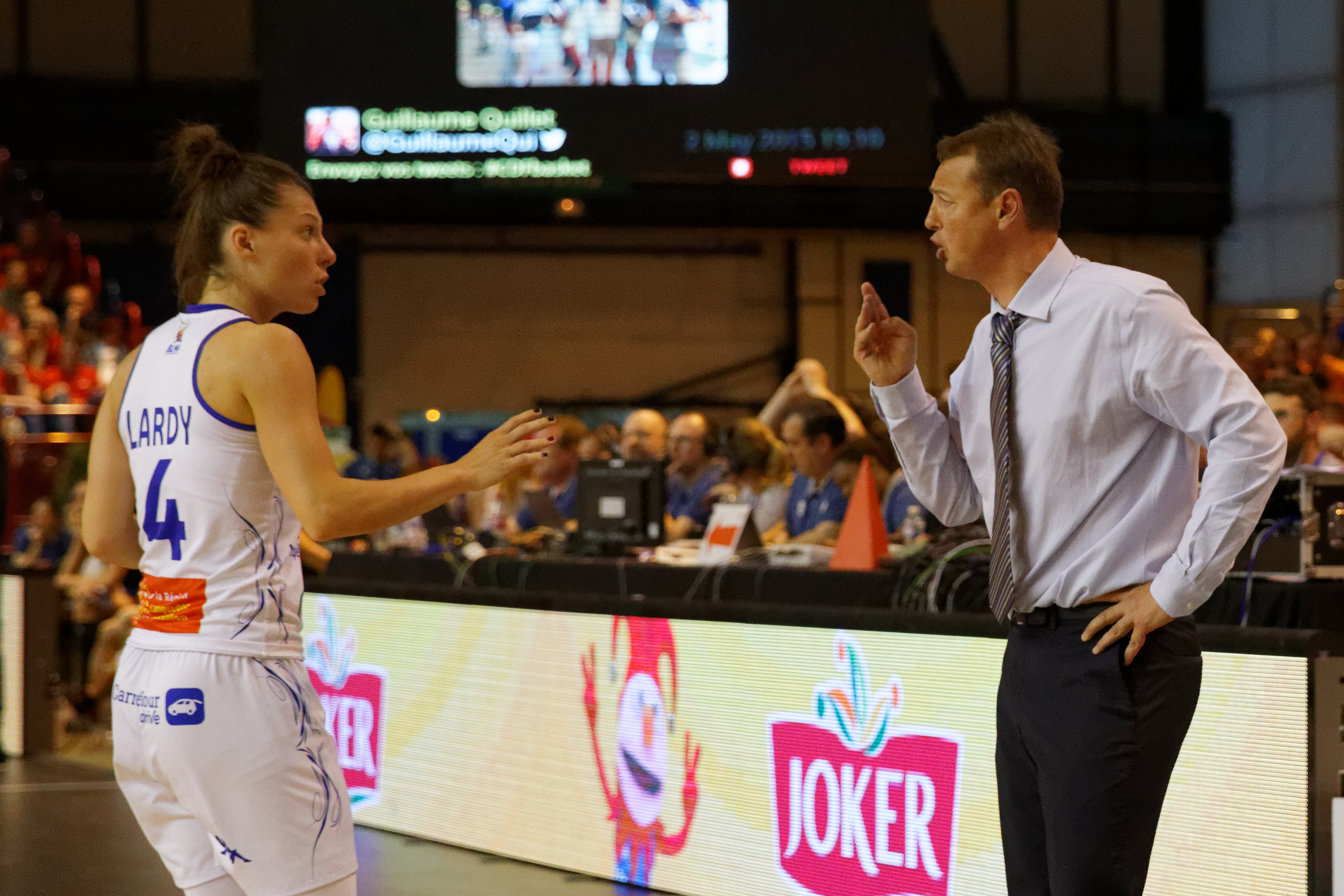 Final of the French Basketball Cup, Lattes-Montpellier vs Bourges, 2nd May 2015.